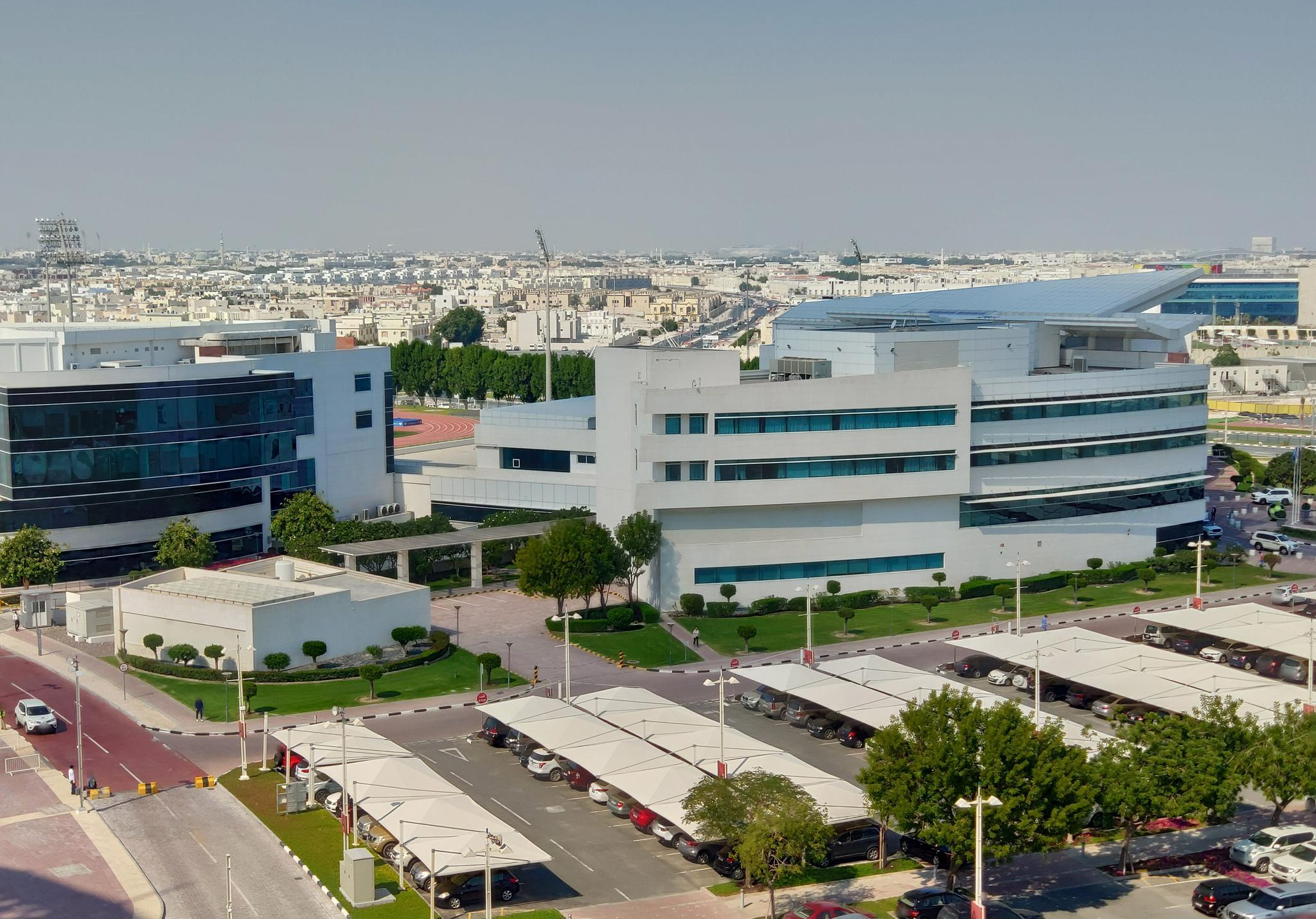 Aerial view of Aspetar Hospital in the Aspire Zone. Located in the Baaya district of Al Rayyan, Qatar.